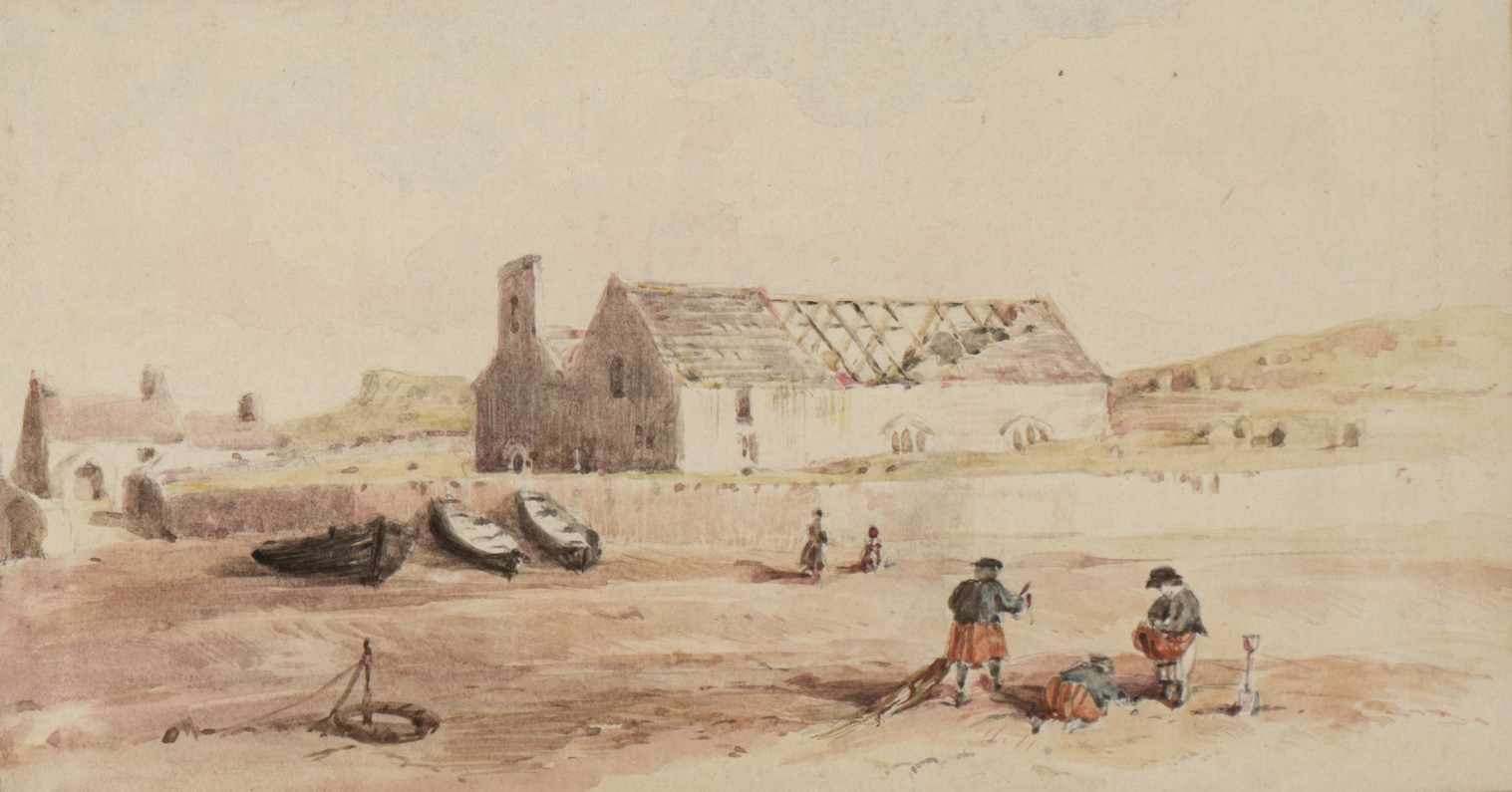 Examples of artwork on a variety of subjects and in a variety of styles by Francis Elizabeth Wynne from a sketchbook (ca. 420 drawings): mixed media, including watercolour, wash and, pen and ink.